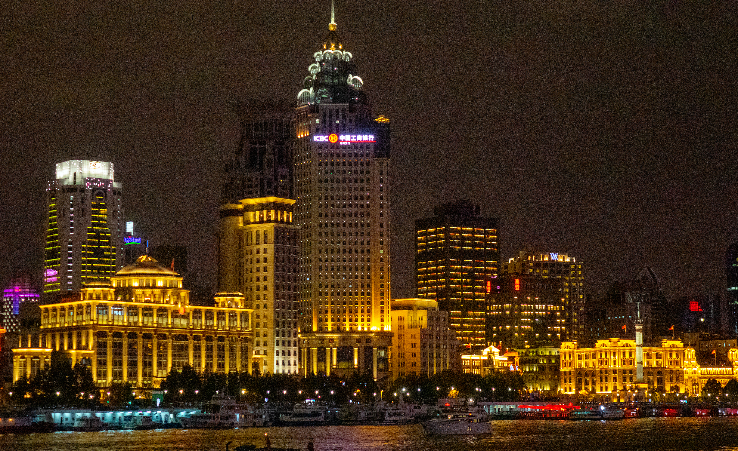 The ICBC building on the Bund, Shanghai